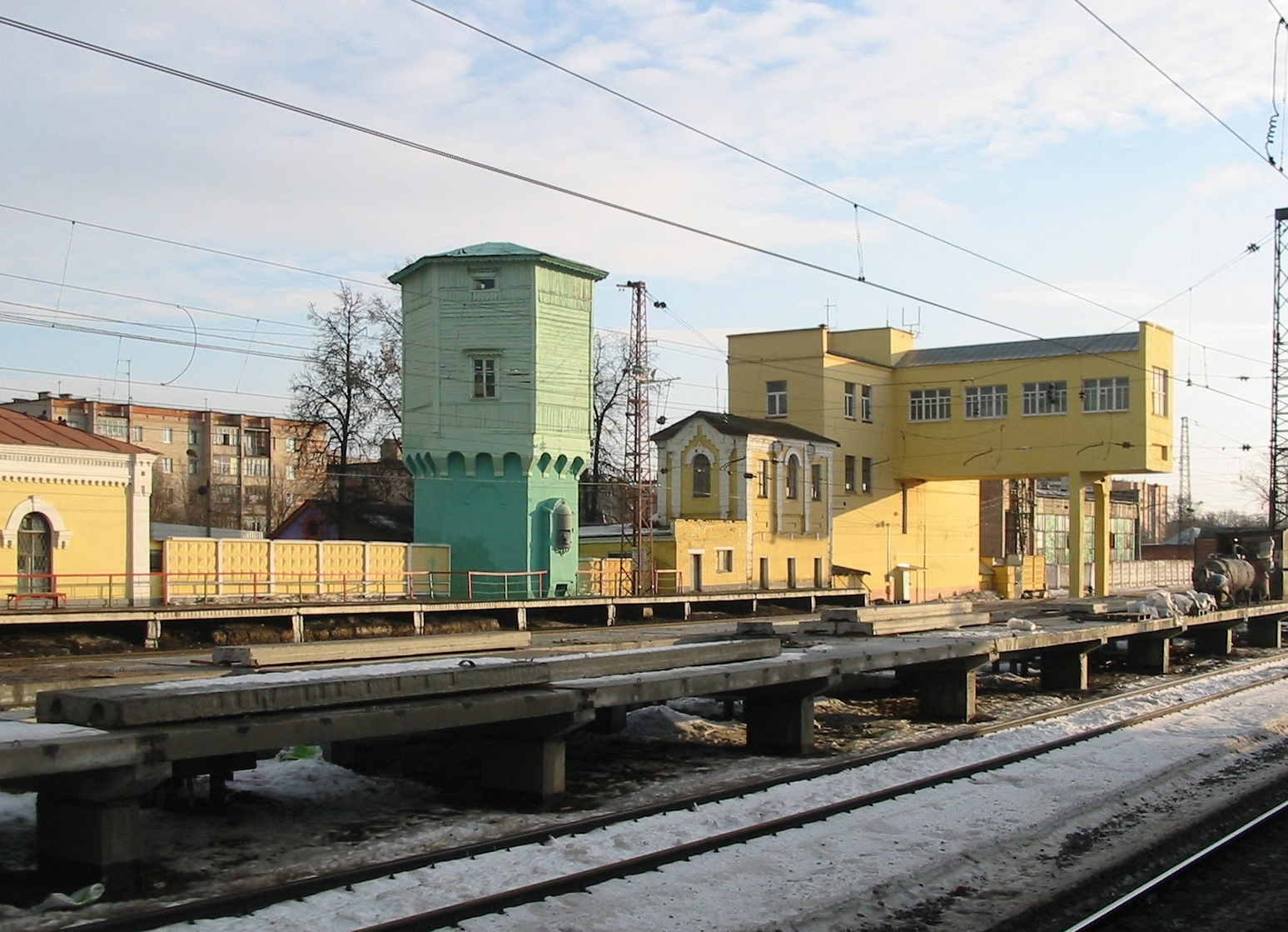 RZD Ramenskoe station. Rebuild in 2005